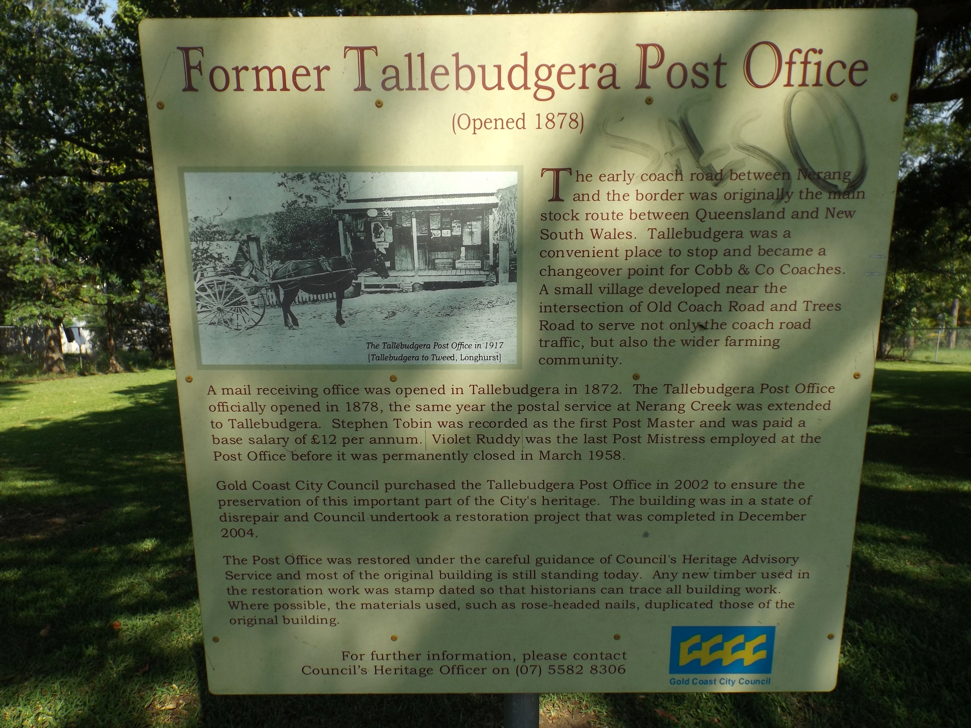 Photo of a sign at the Tallebudgera Post Office at Tallebudgera, Gold Coast City, Queensland, Australia.